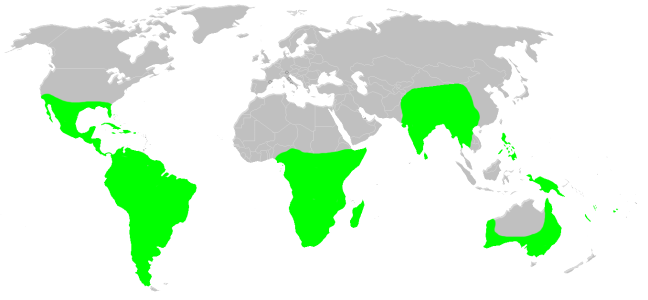 Dipluridae habitat distribution, drawn after Platnick: World Spider Catalog 7.0. This is not a precise rendering of the distribution! If you have better information, please replace this map, or send me the info, so i will redraw it.